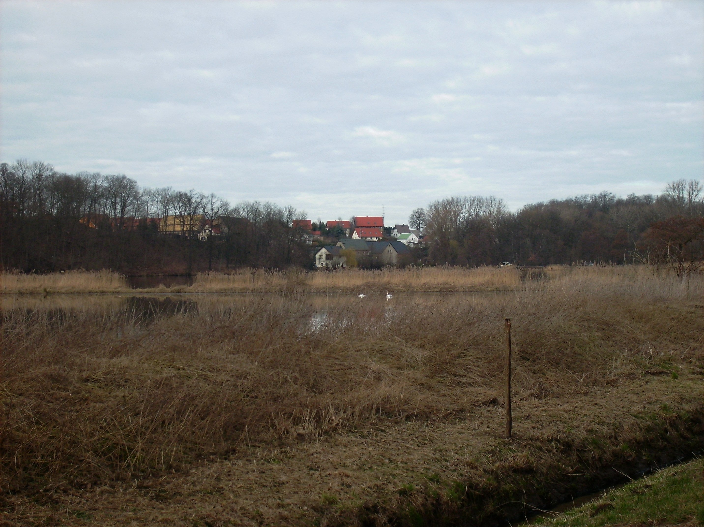 Groitzsch (Jesewitz, Nordsachsen district, Saxony) from the Mulde mead